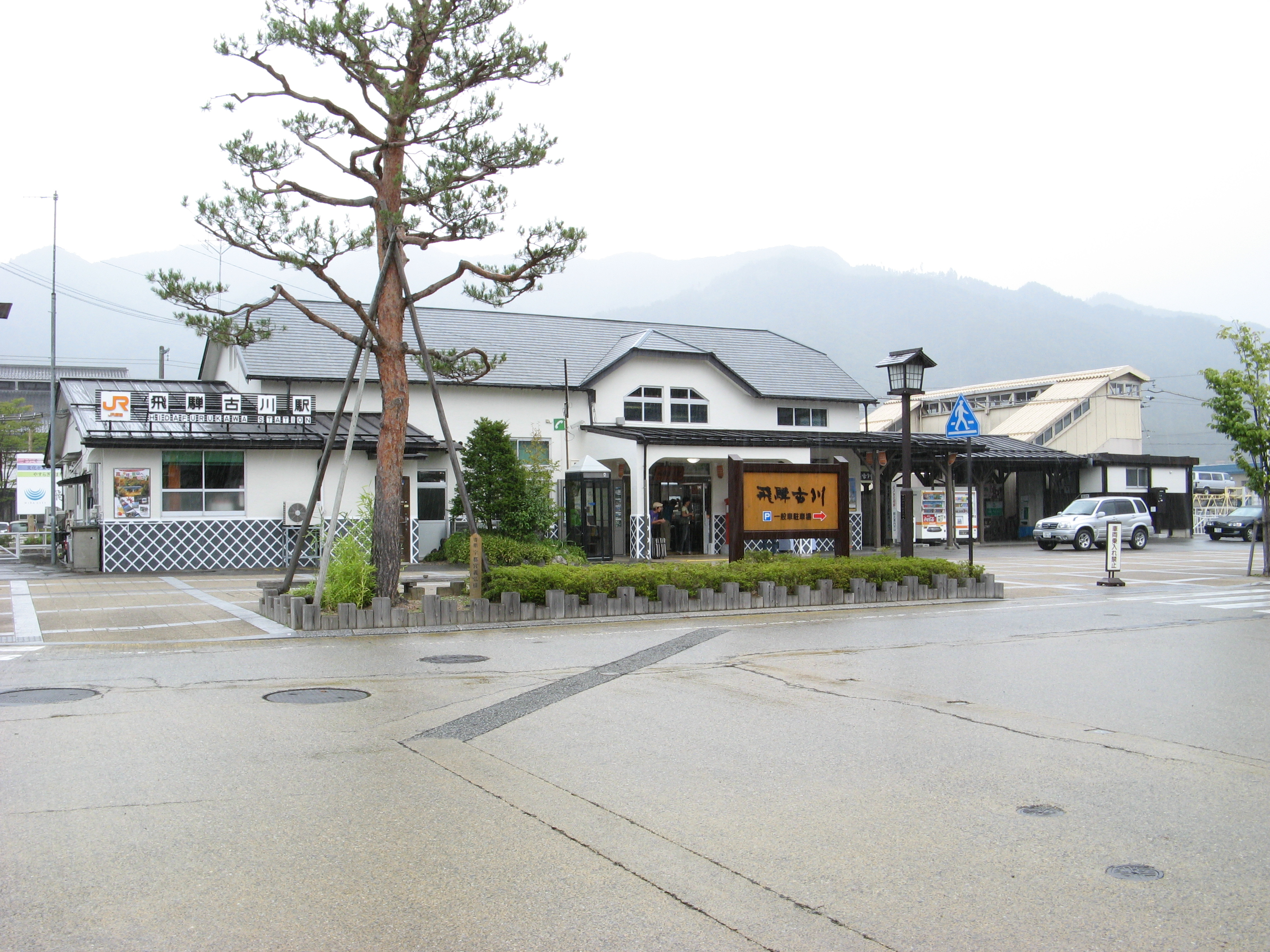 Hida-Furukawa Station